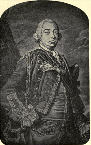 Robert Monckton